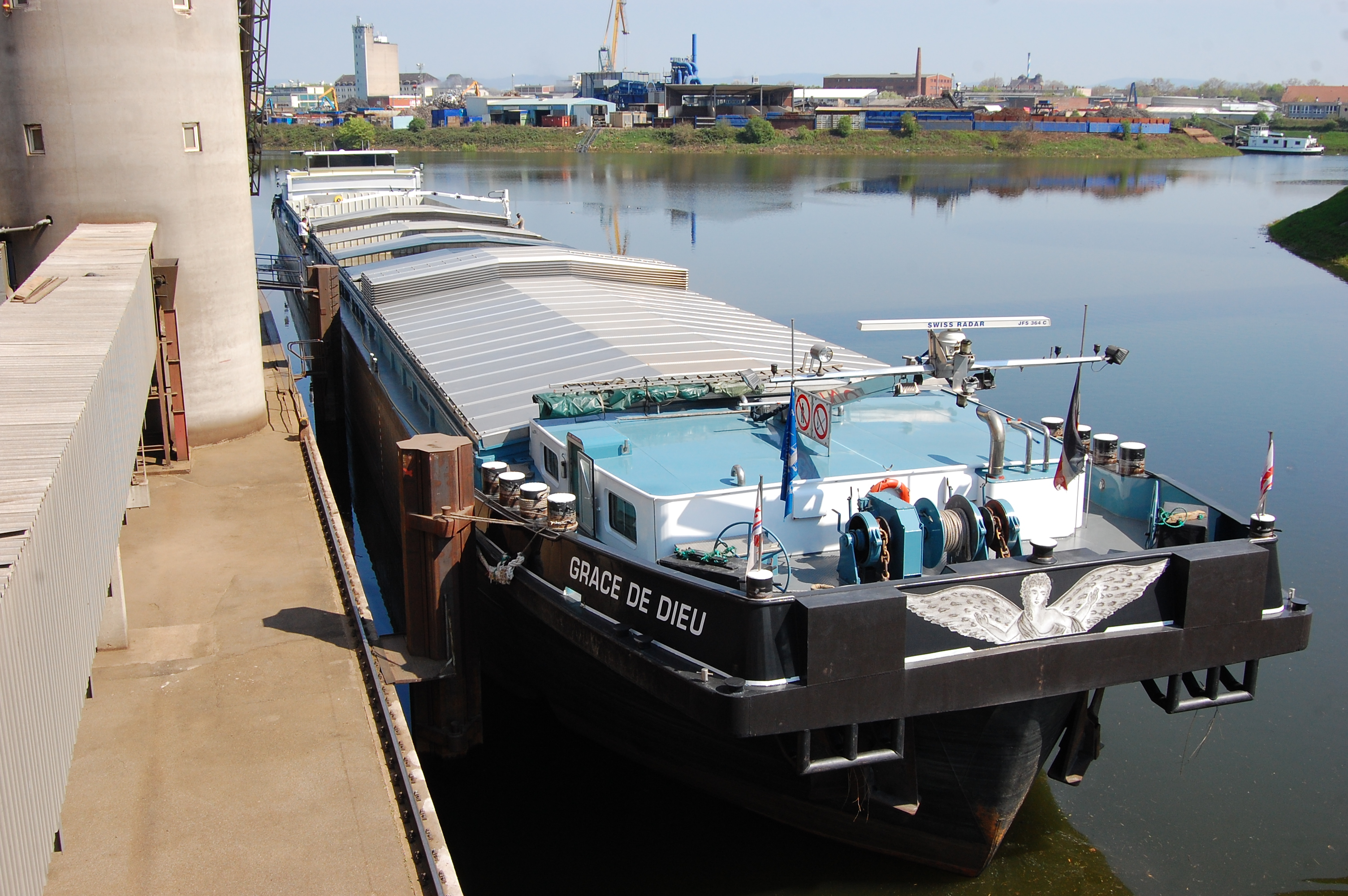 Bulk Carrier "Grace de Dieu" in the Industriehafen (Industrial Port)Mannheim, Germany.